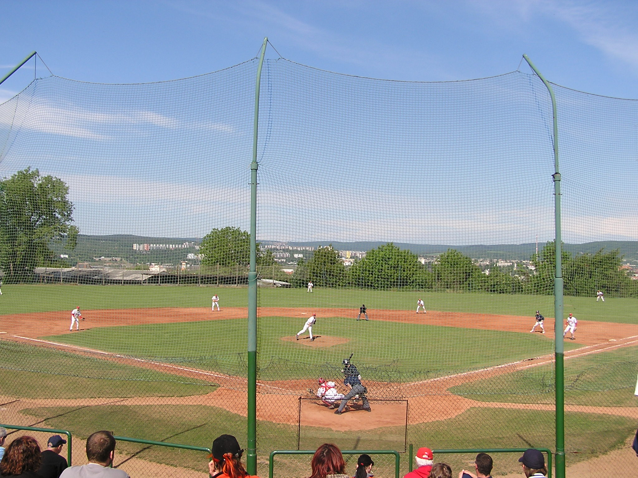 Czech Baseball Extraleague: Technika Brno vs. Arrows Ostrava, Brno - Kravi hora, Czech Republic